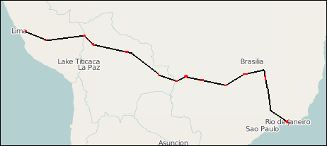 This map may be incomplete, and may contain errors. Don't rely solely on it for navigation.